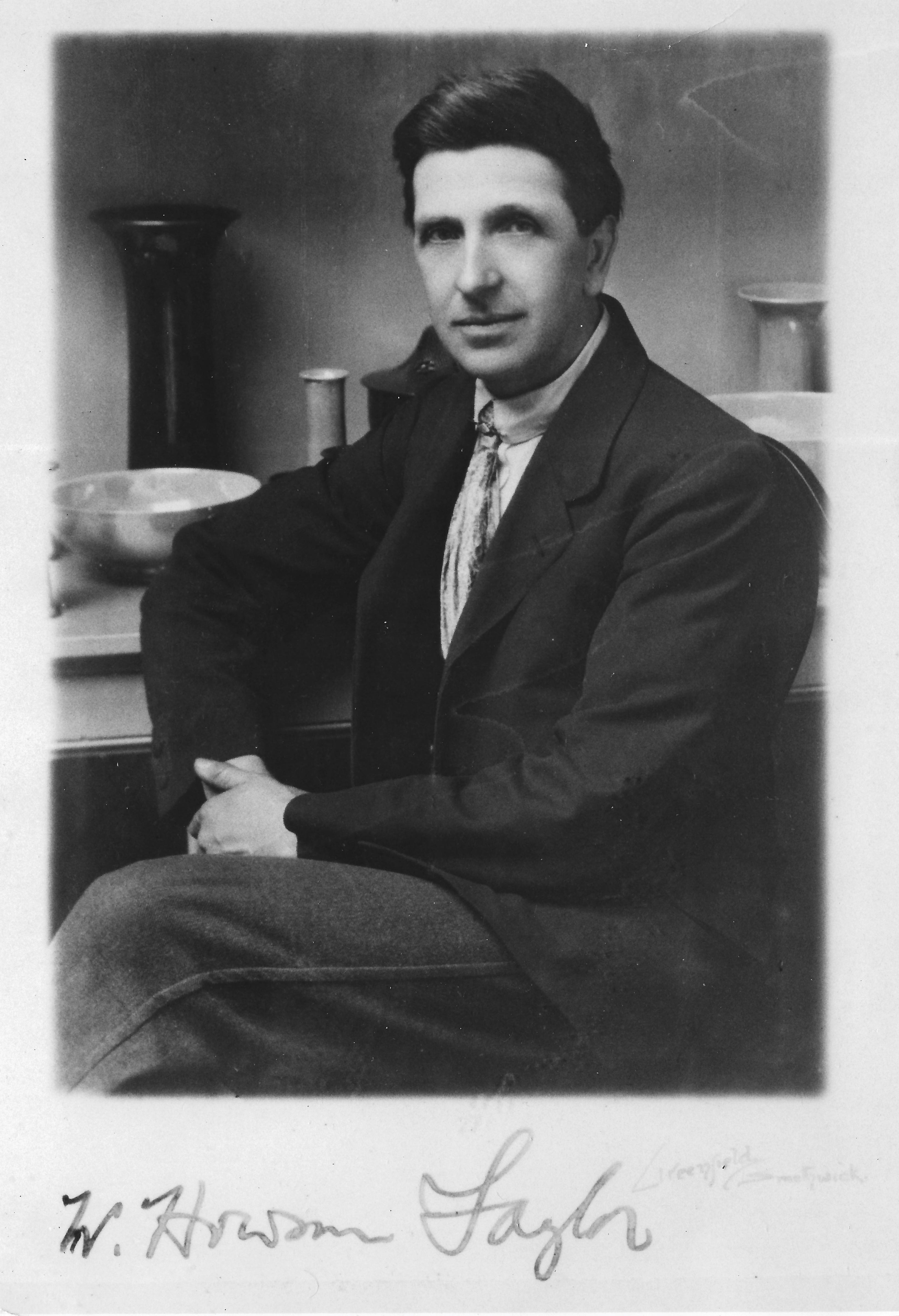 Image of William Howson Taylor that accompanied a piece of Ruskin in my possession